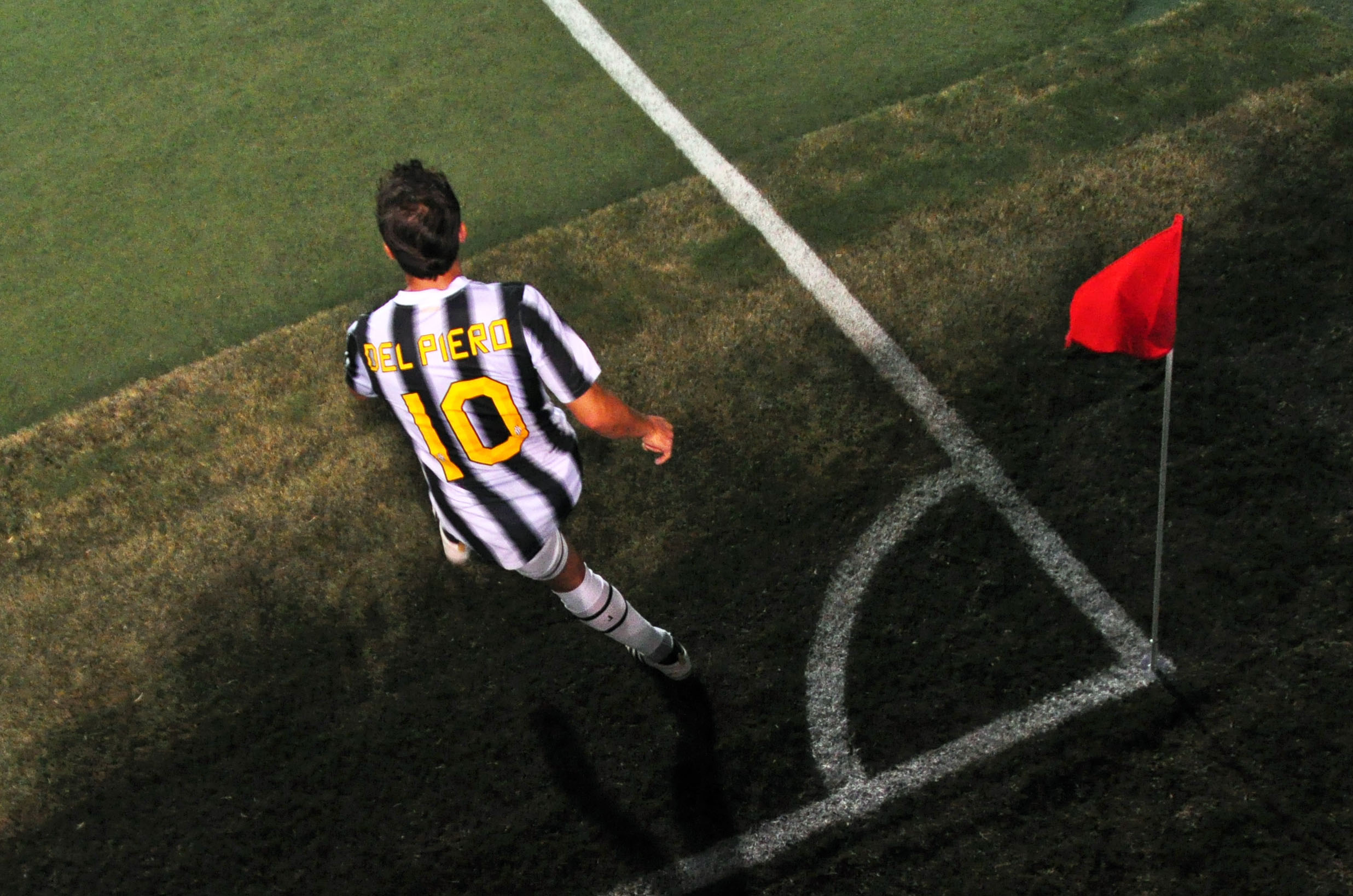 Alessandro Del Piero takes a corner kick for Juventus in the friendly confines of Carter Finley stadium. 7/28/11 Guadalajara Chivas vs Juventus FC at Carter-Finley Stadium, Raleigh, NC